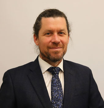 Irish politician Steven Matthews of the Green Party, taken in 2020.